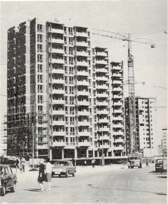 Notable apartment buildings "Gradski Dzid" (City's Wall) in the center of Skopje, under construciton